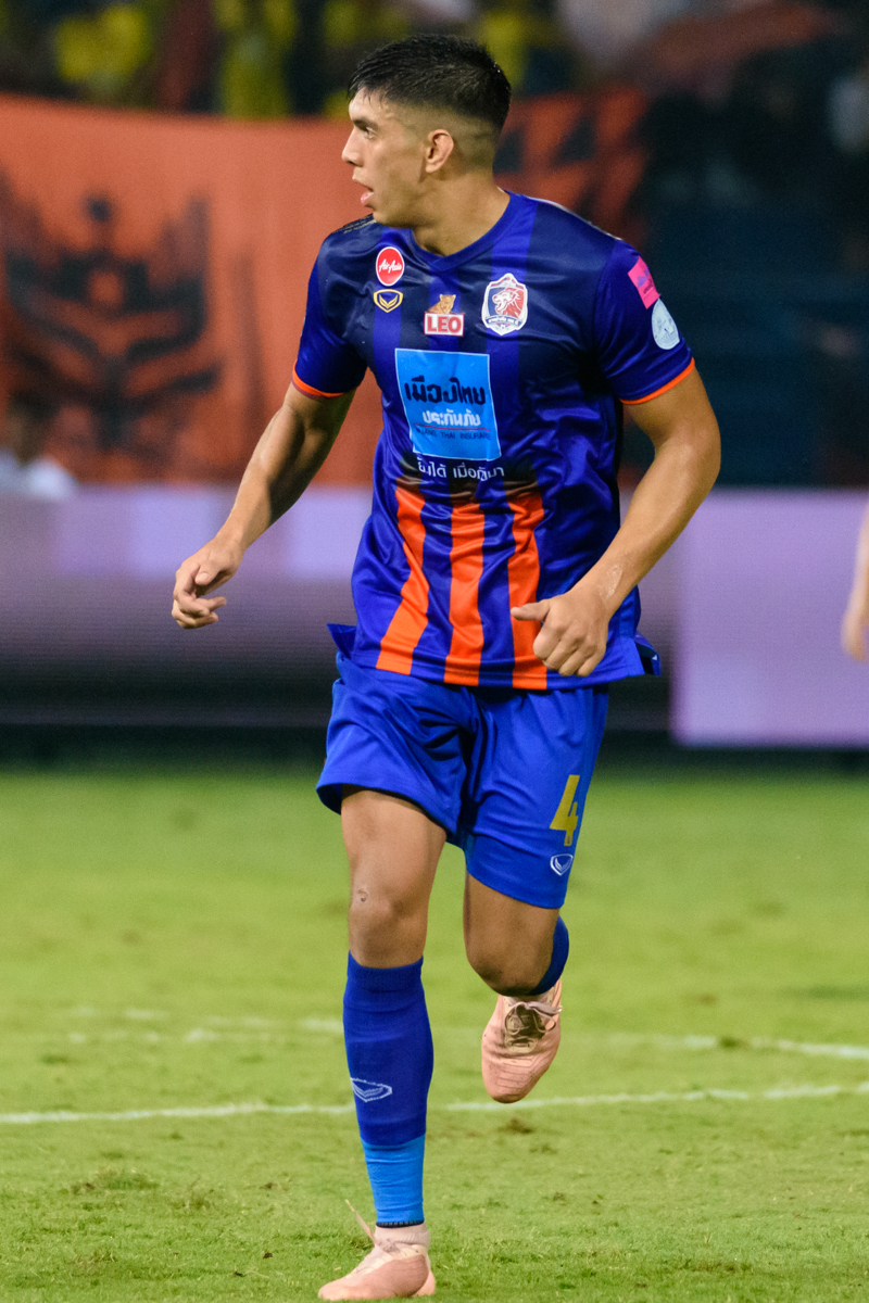 Elias Dolah during the Thai FA Cup Final 2019 vs Ratchaburi FC